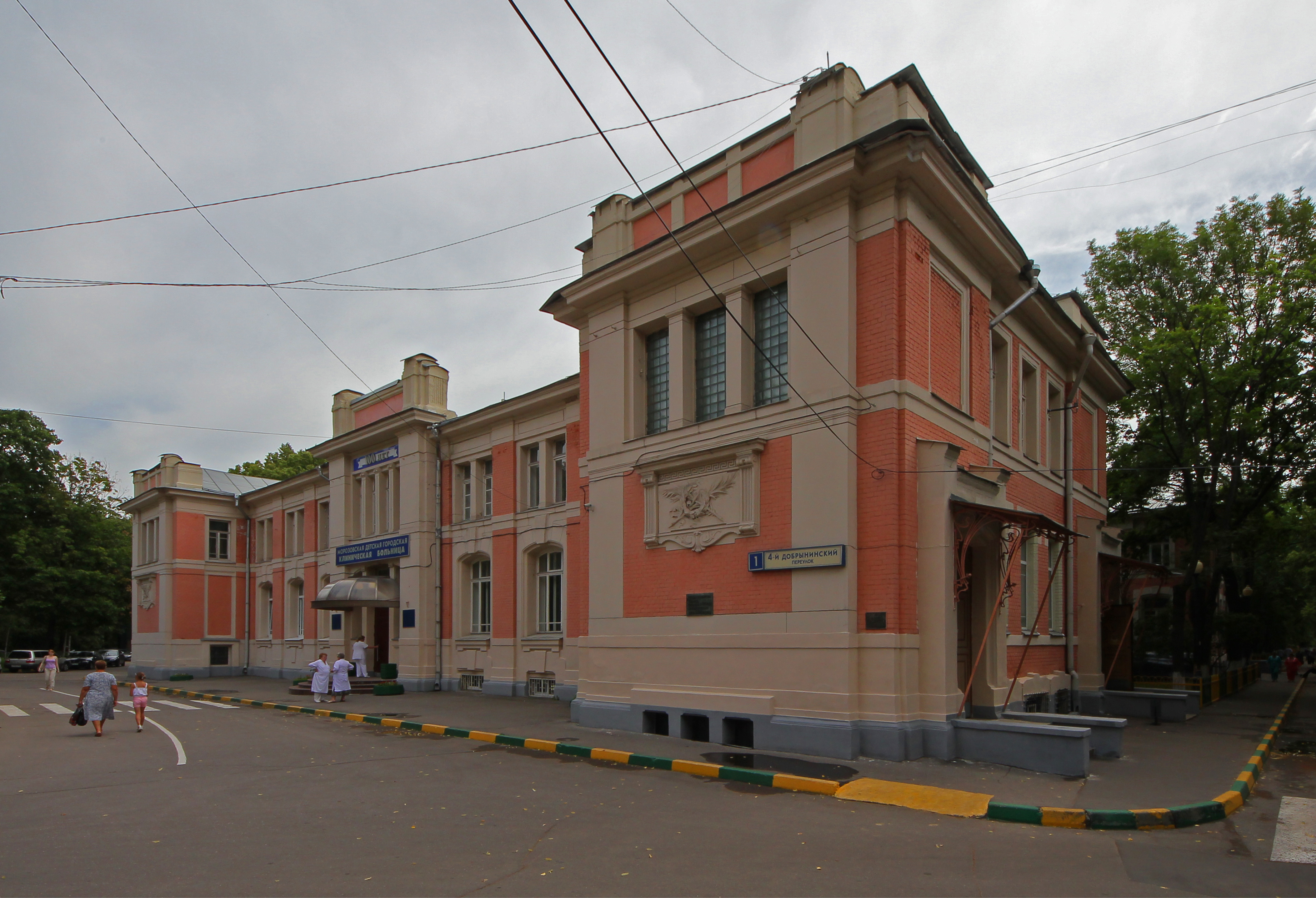 The Morozov Children's hospital in Moscow, administration building